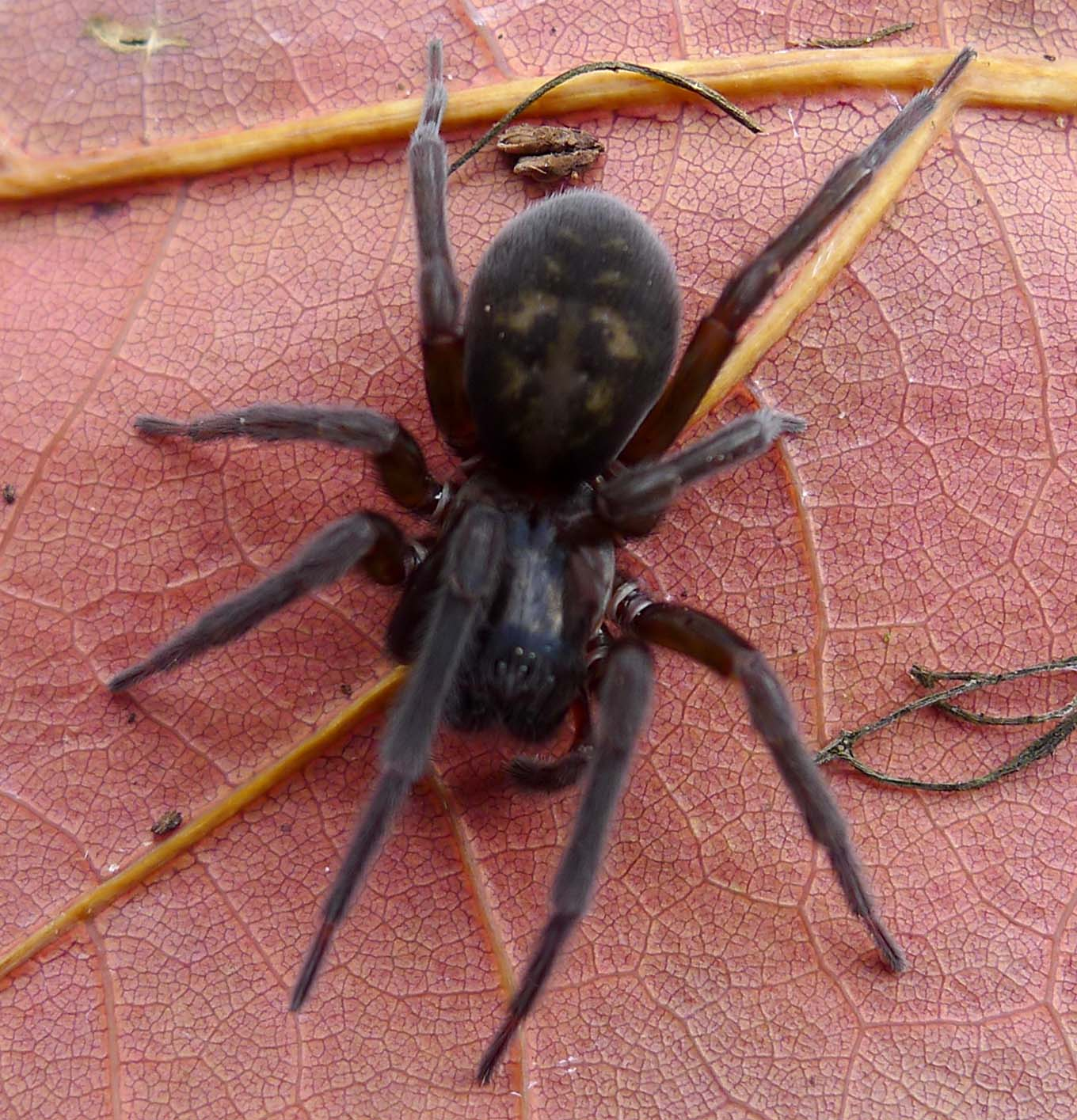 Cradley,Malvern,Worcs. SO7347